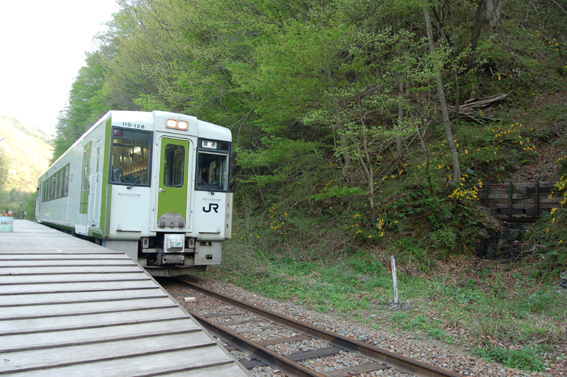 JR East Kiha 110 series DMU at Oshikado Station